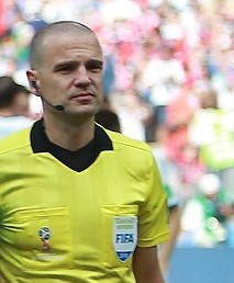 Igor Akinfeev, Björn Kuipers, Sergio Ramos